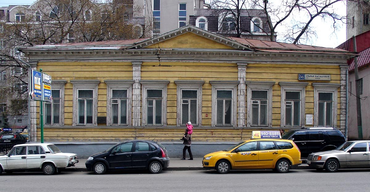 36, Staraya Basmannaya Street, Moscow, Russia. House of Vasily Pushkin, Alexander Pushkin's uncle, 1810s.